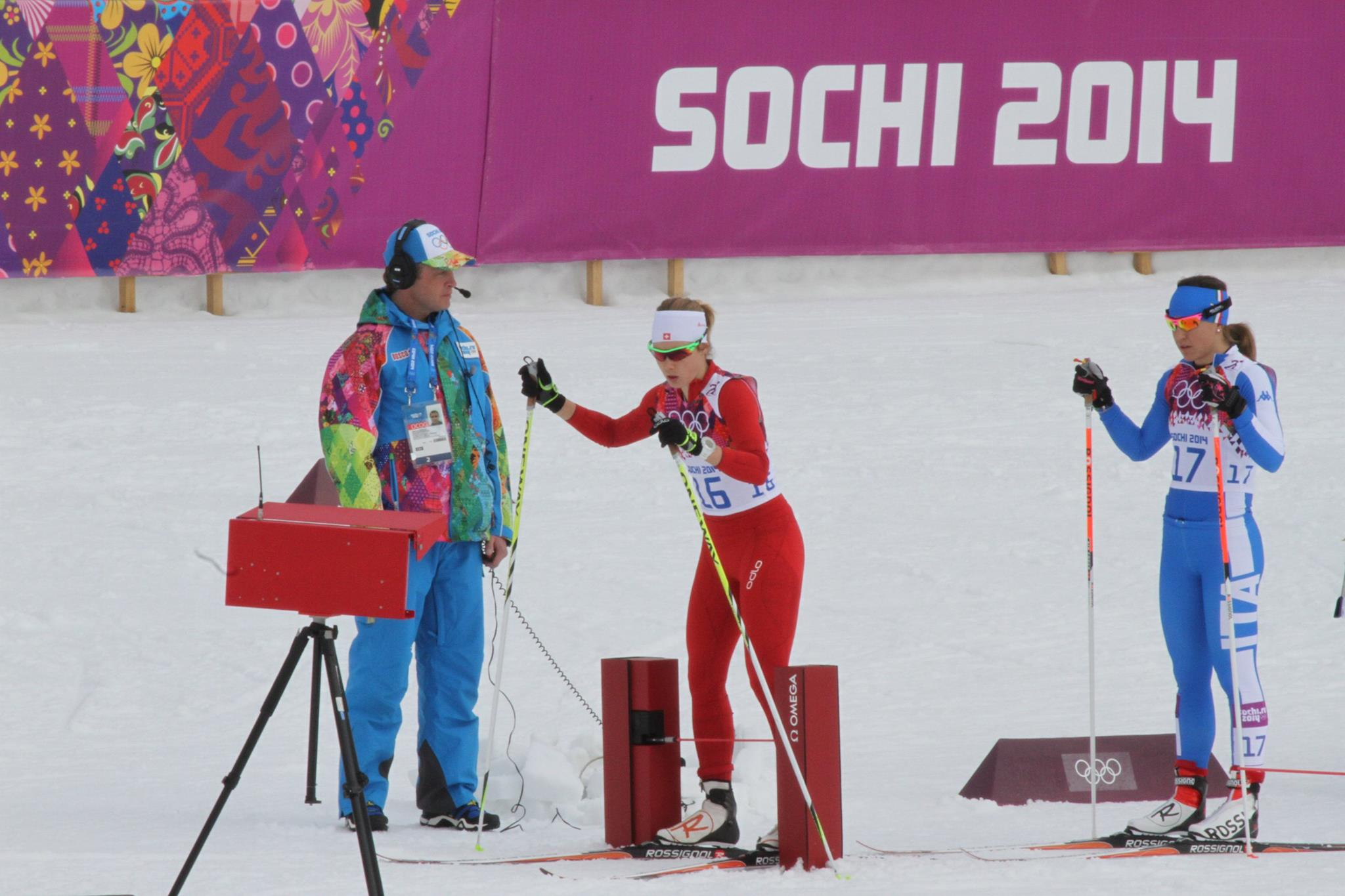 Women's sprint, 2014 Winter Olympics, Laurien van der Graaf cross country skiing